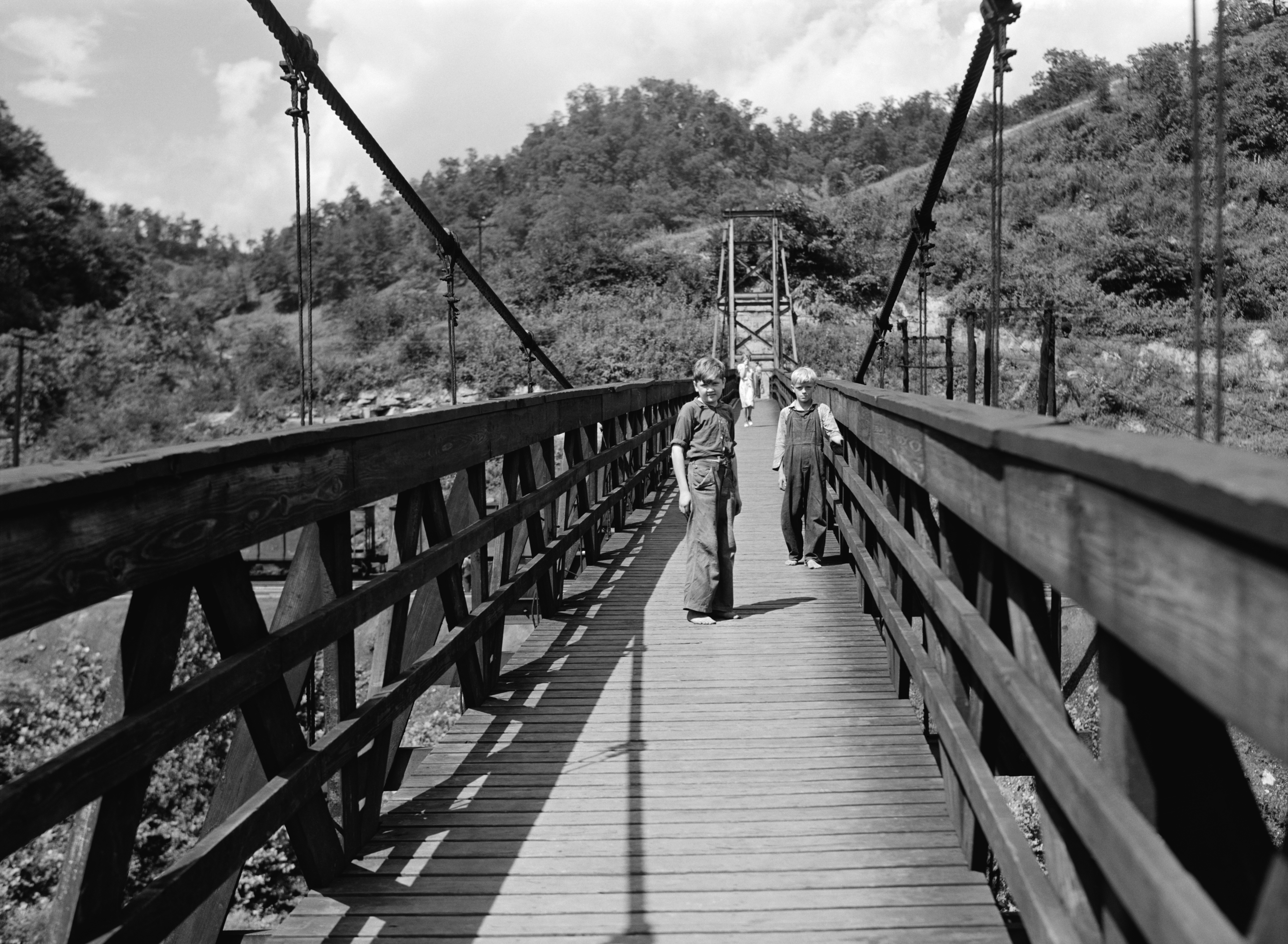 Miners' children crossing swinging bridge from their homes into town. Hazard, Kentucky. 1 negative: safety; 3 1/4 x 3 1/4 inches or smaller.